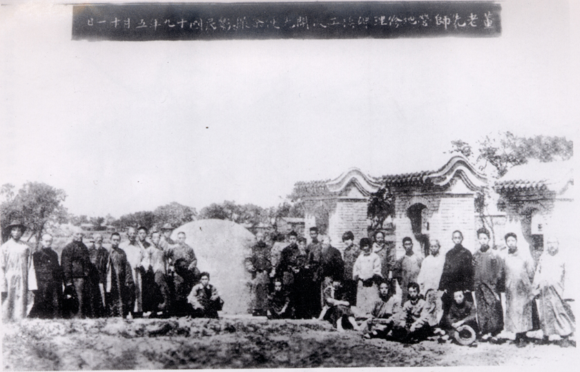 Mai Gui and fellow Bagua students standing in front of the original tomb of Dong Haichuan.